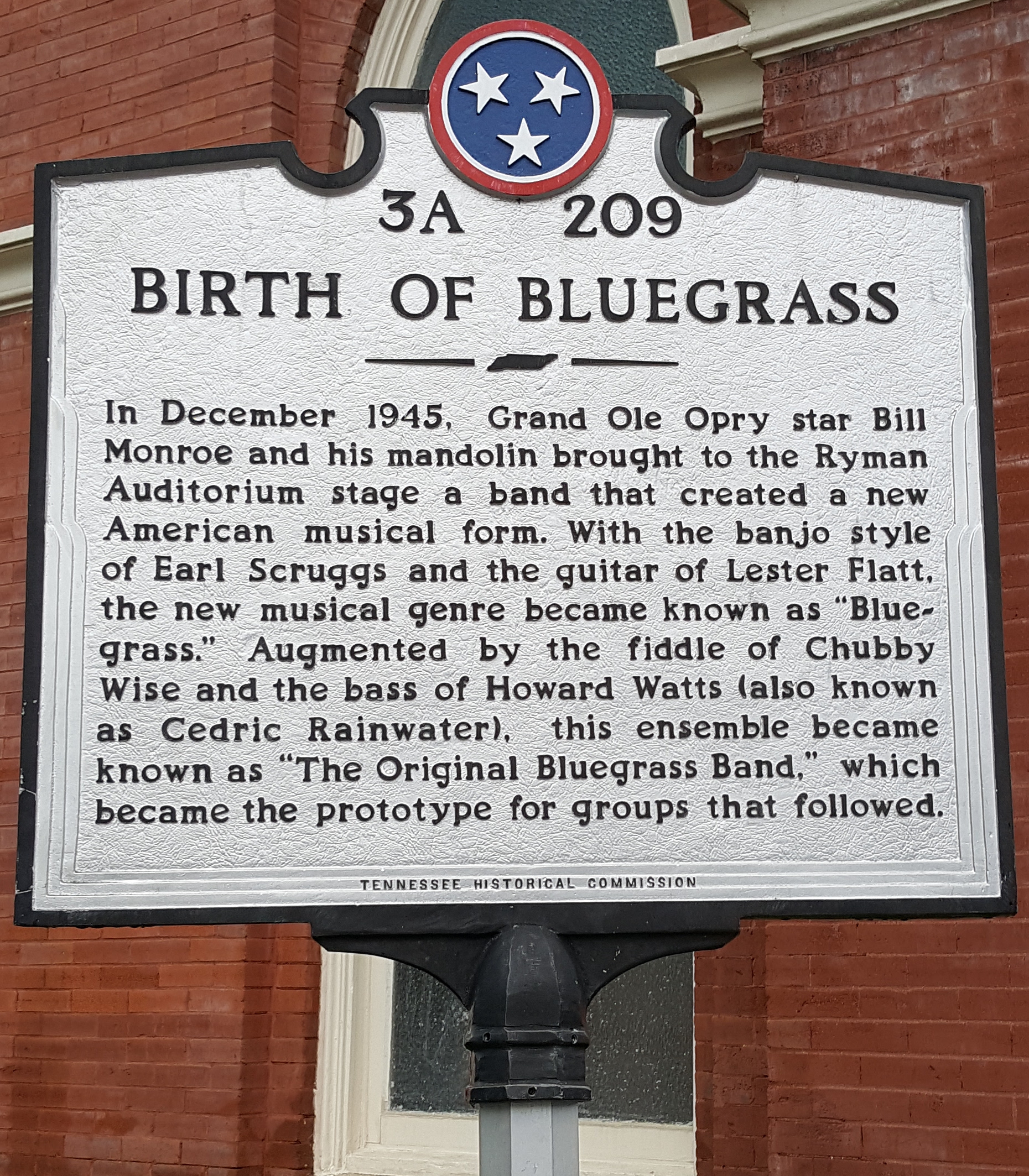 Birth of Bluegrass sign outside the Ryman Auditorium in Nashville, Tennessee.